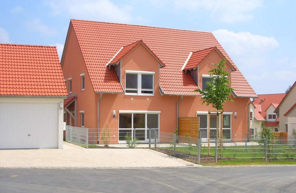 One of more than 3.000 newly built leased and government-owned units around U.S. Army Garrison Grafenwoehr